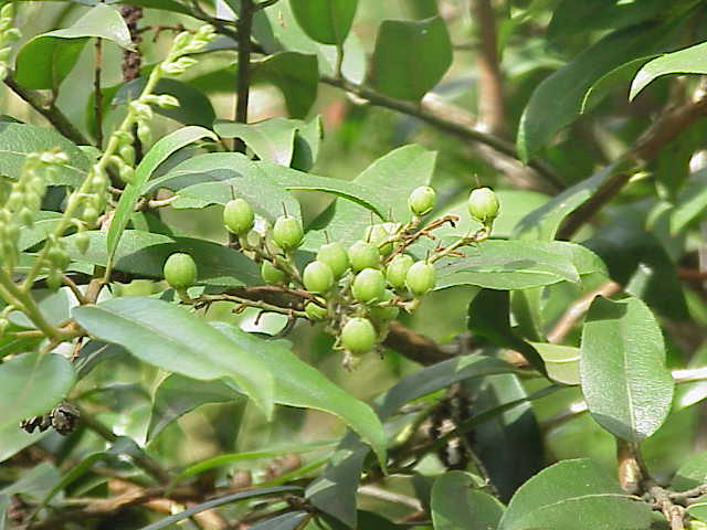 Species: Pieris floribunda Family: Ericaceae Image No. 1